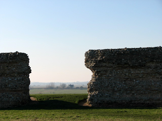 The Roman fort of Gariannonum - east wall The site offers magnificent views across the marshes extending westwards. This view was taken through a gap in the east wall. Originally a Norman earthwork motte and bailey fortress that had been built within the stone walls of the Roman fort of Gariannonum, dated to the late 3rd century. The first recorded motte in England dates from 1051, built by French castle builders for the English king in Hereford; by the death of William the Conqueror in 1087 they were a common feature. At Burgh Castle, the motte with surrounding ditch was raised over the wall at the southwestern corner, and a rampart supporting a timber palisade was constructed on the western side. During the 18th century the motte was levelled and only fragments of the earthworks remain. The site, owned by English Heritage, is freely accessible; it offers magnificent views across the marshes extending westwards.